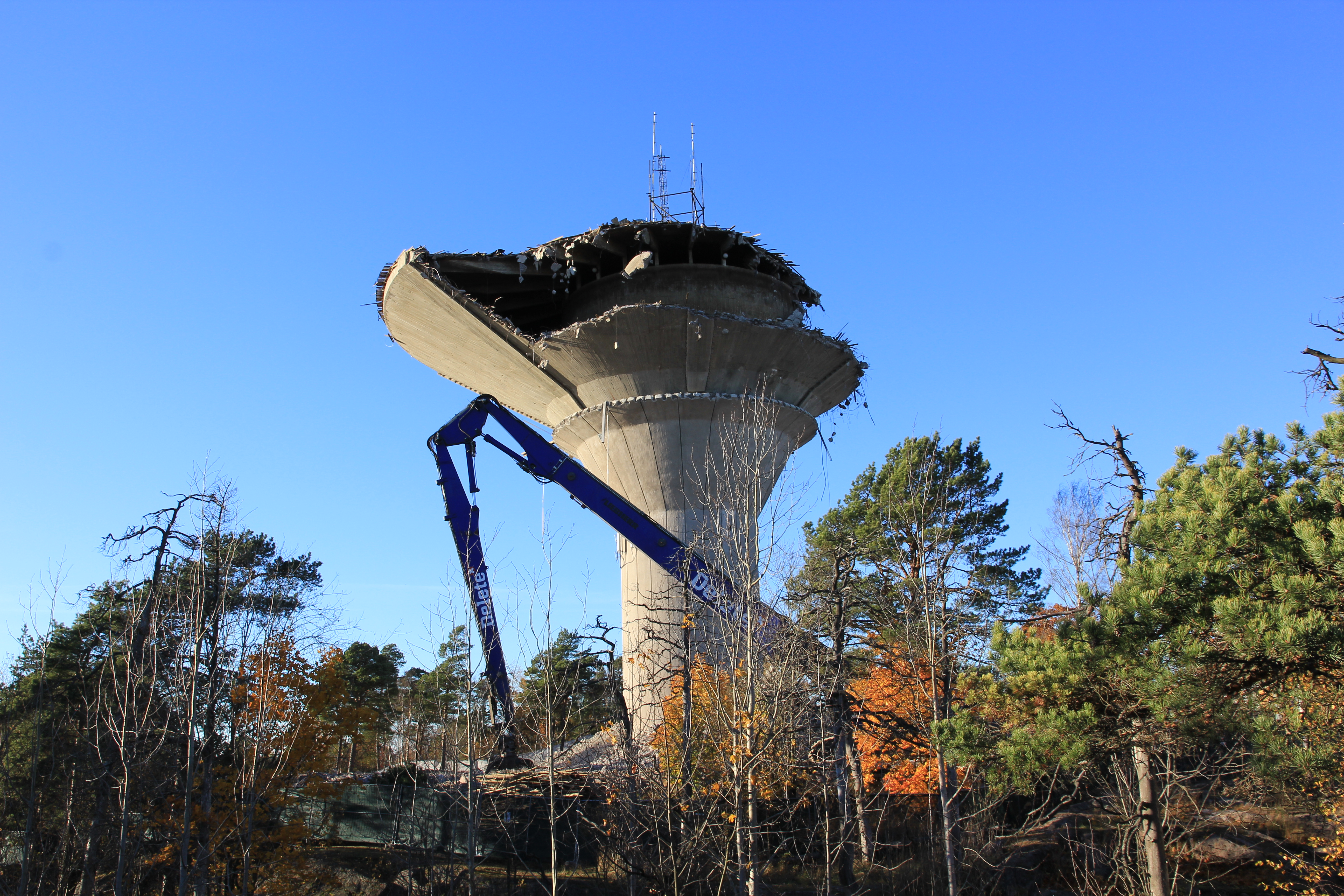 Demolition of Lauttasaari water tower.